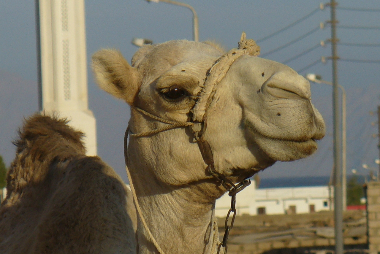 camel face up close, Dahab, South Sinai, Egypt